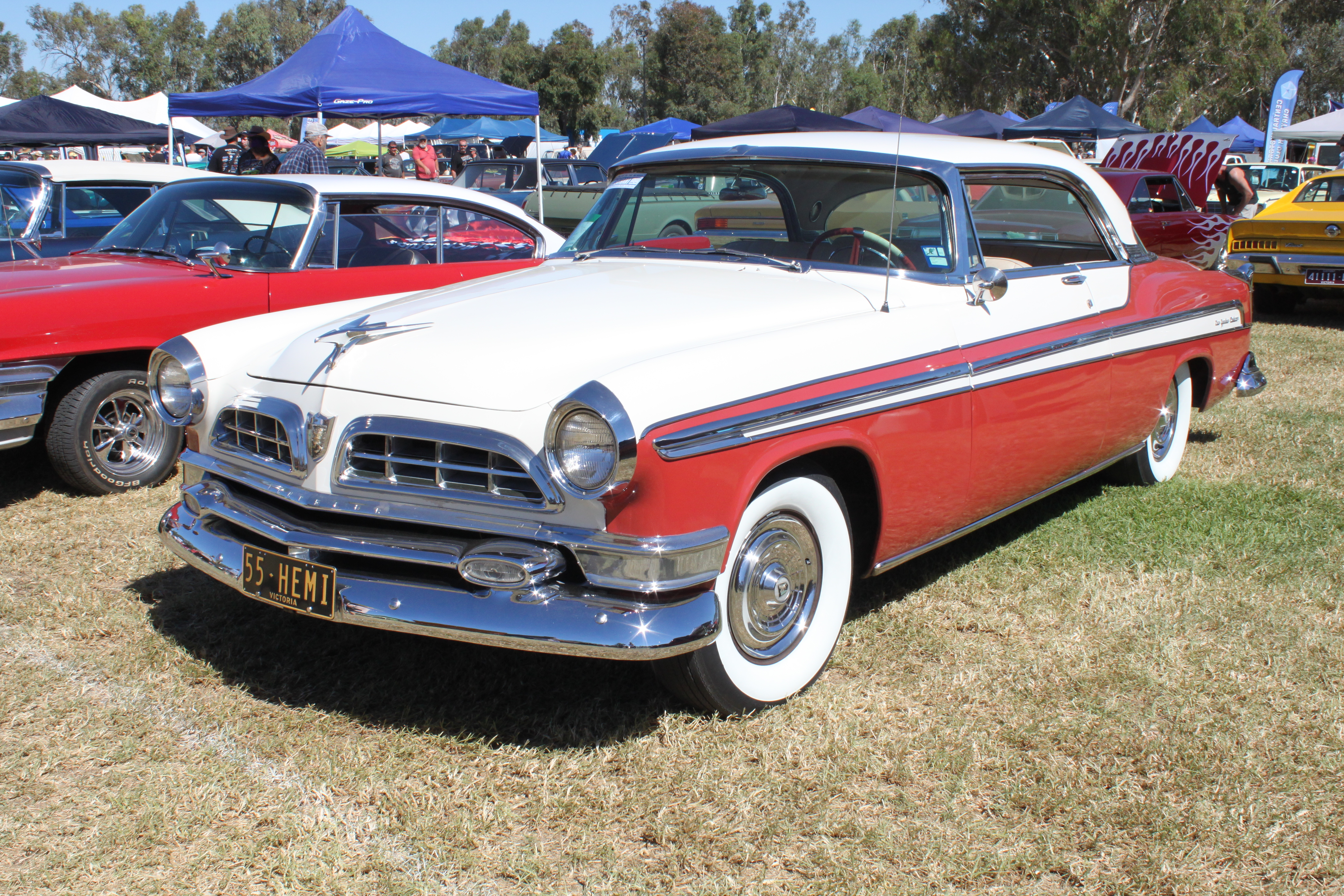 Chryslers on the Murray 2015